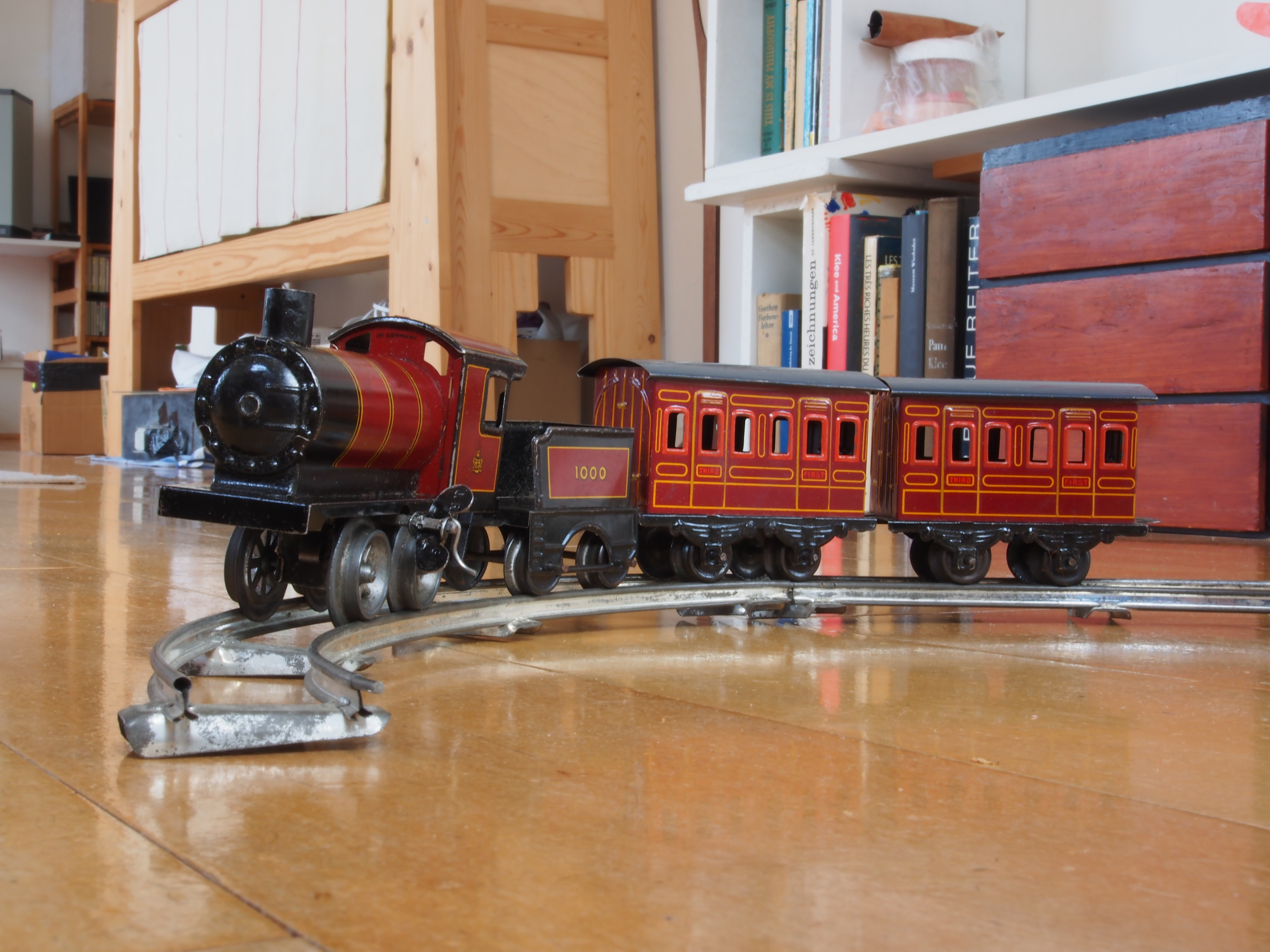 Made in Germany Tin clockwork toy train from around 1900.